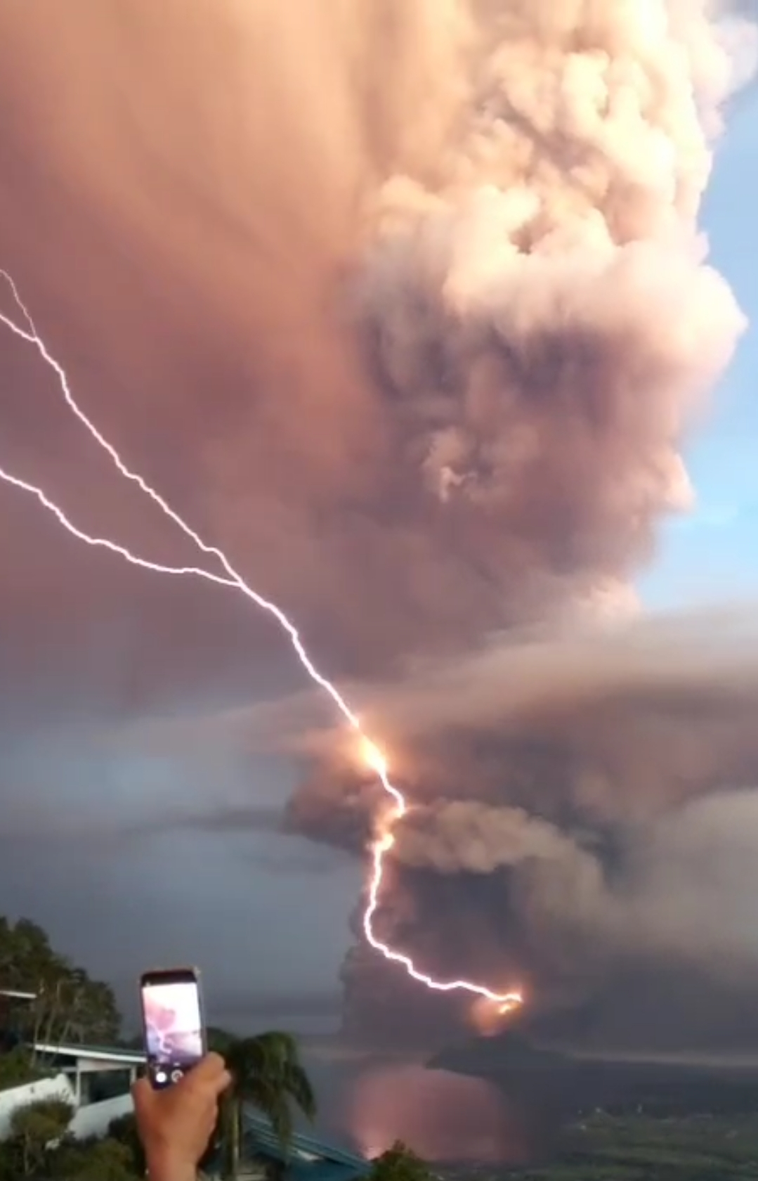 Volcanic Eruption of Taal Volcano, with lightning